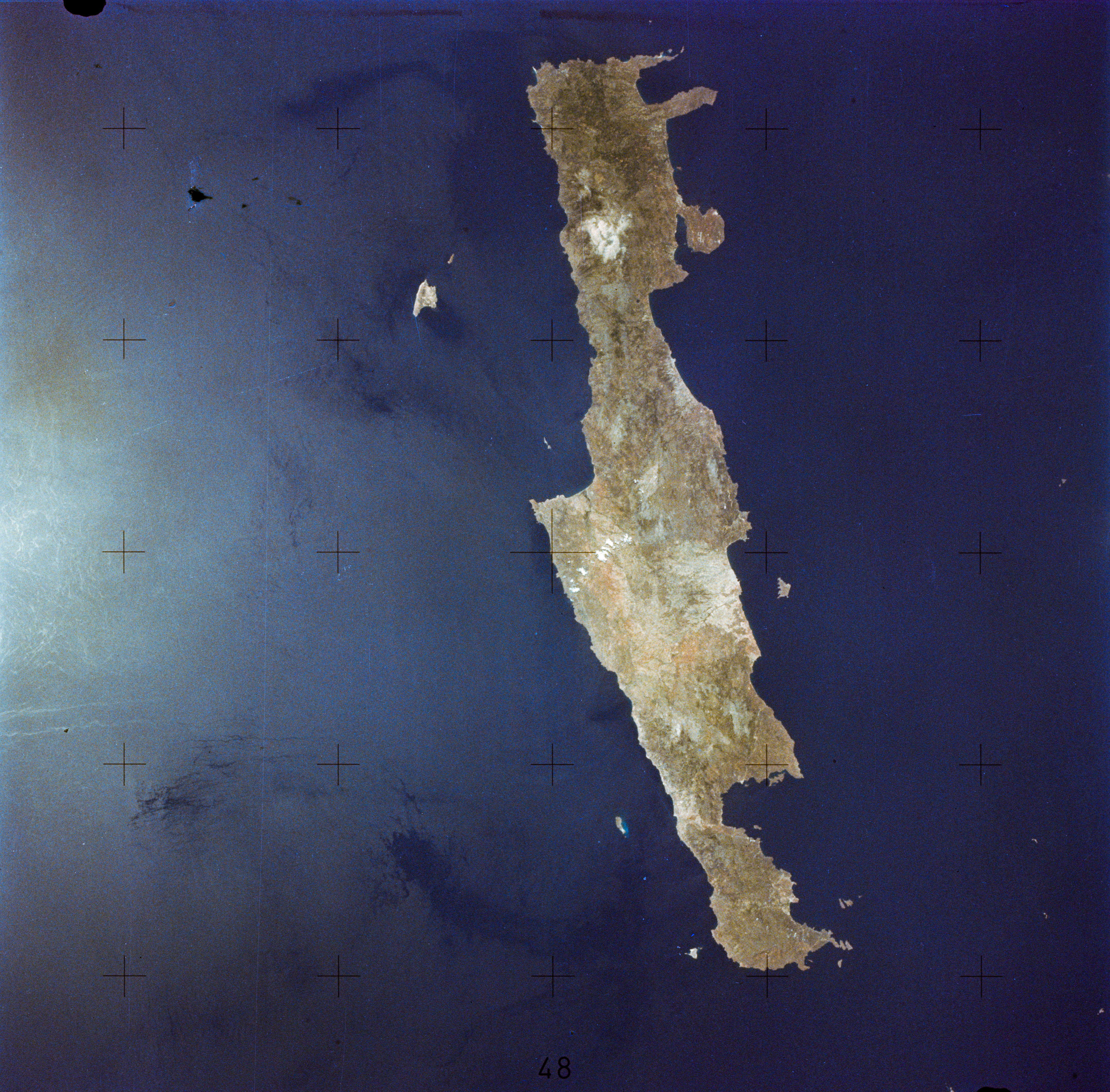 SL2-05-364 (22 June 1973) --- Lying in the eastern Mediterranean Sea, the entire Island of Crete (35.0N, 25.0E) can be seen in great detail in this cloud free view. The volcanic origins of this island can also be observed in the many sharp and angular ridgelines and rugged coastal features.